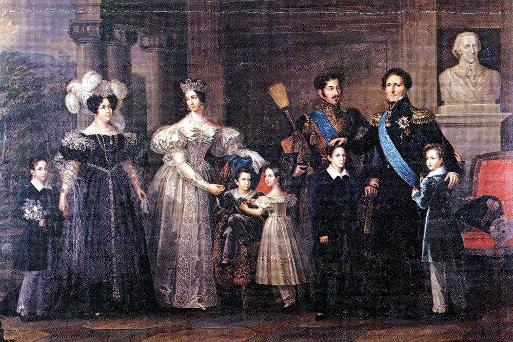 (l-r:) Prince Oscar (II), Queen Desideria, Crown Princess Josephine, Prince August, Princess Eugenie, Crown Prince Oscar (I), Prince Carl (XV), King Carl XIV John, Prince Gustav & bust of Carl XIII